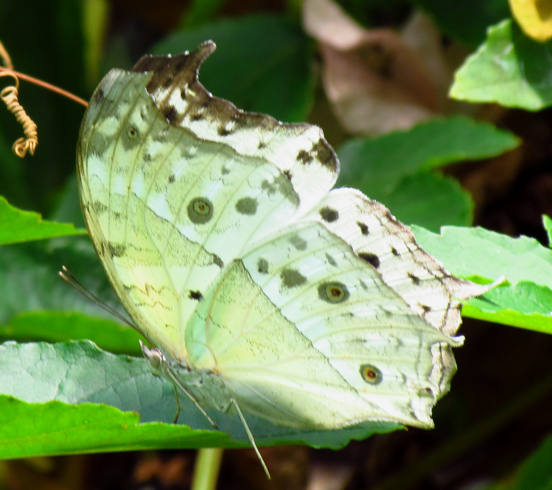 Common Mother-of-Pearl (Protogoniomorpha parhassus)